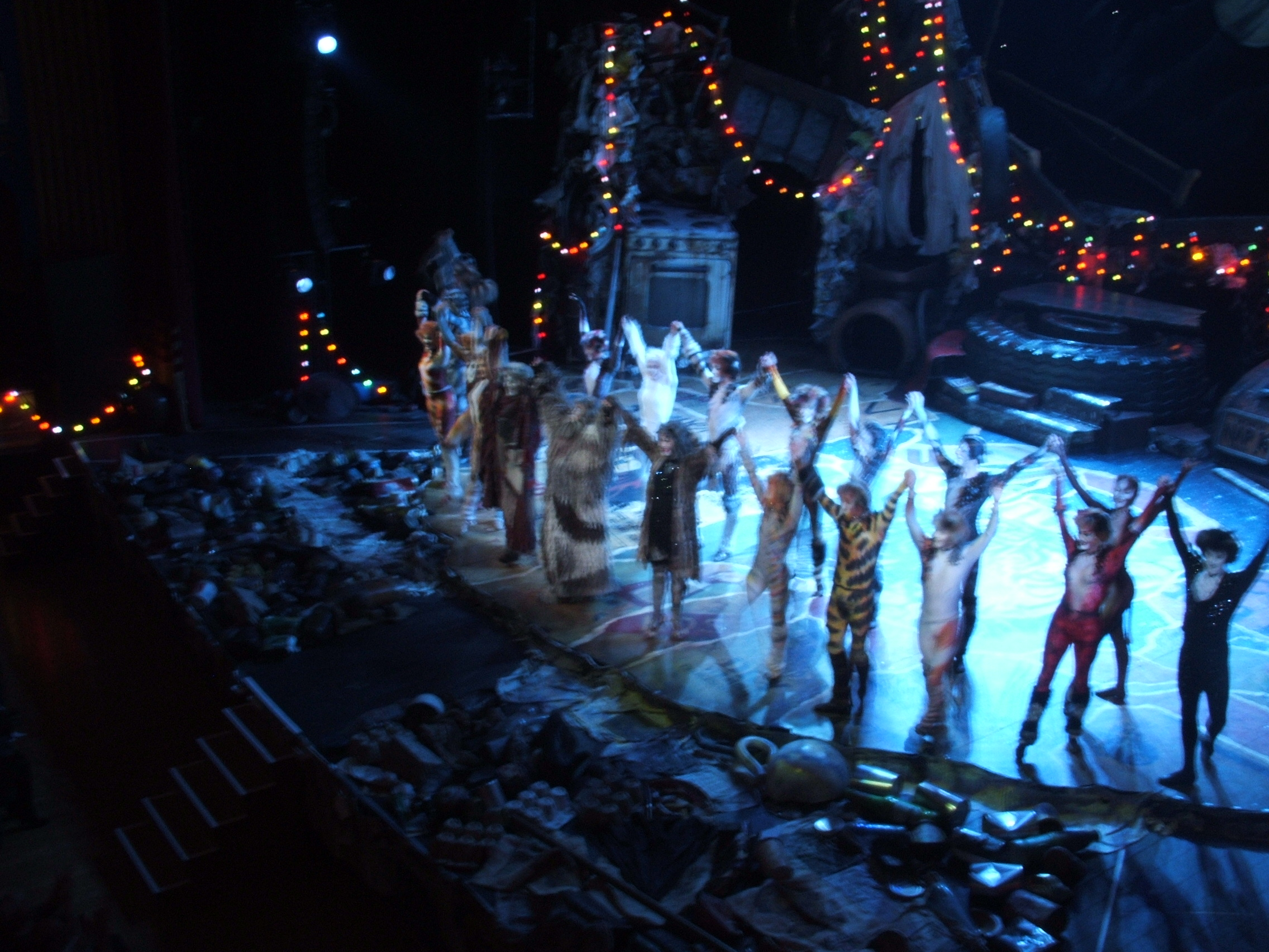 The cast of CATS after the Show at Rossetti Theatre, Trieste. May 28 2008